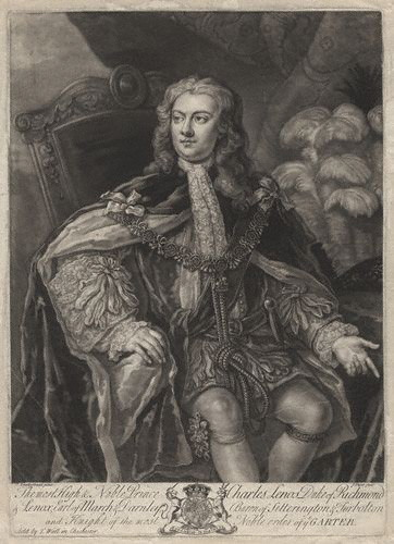 Charles Lennox, 2nd Duke of Richmond